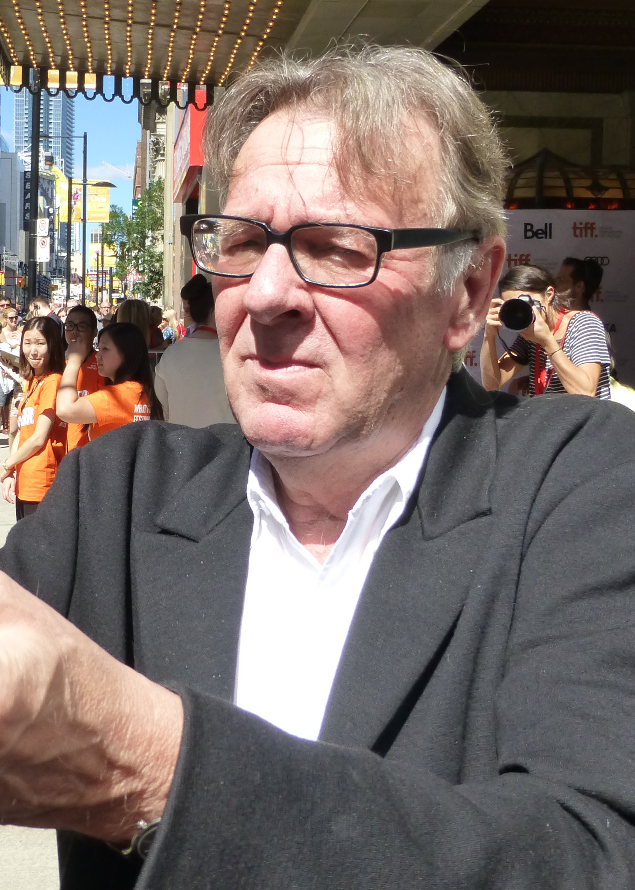 Tom Wilkinson at the premiere of Belle, Toronto Film Festival 2013